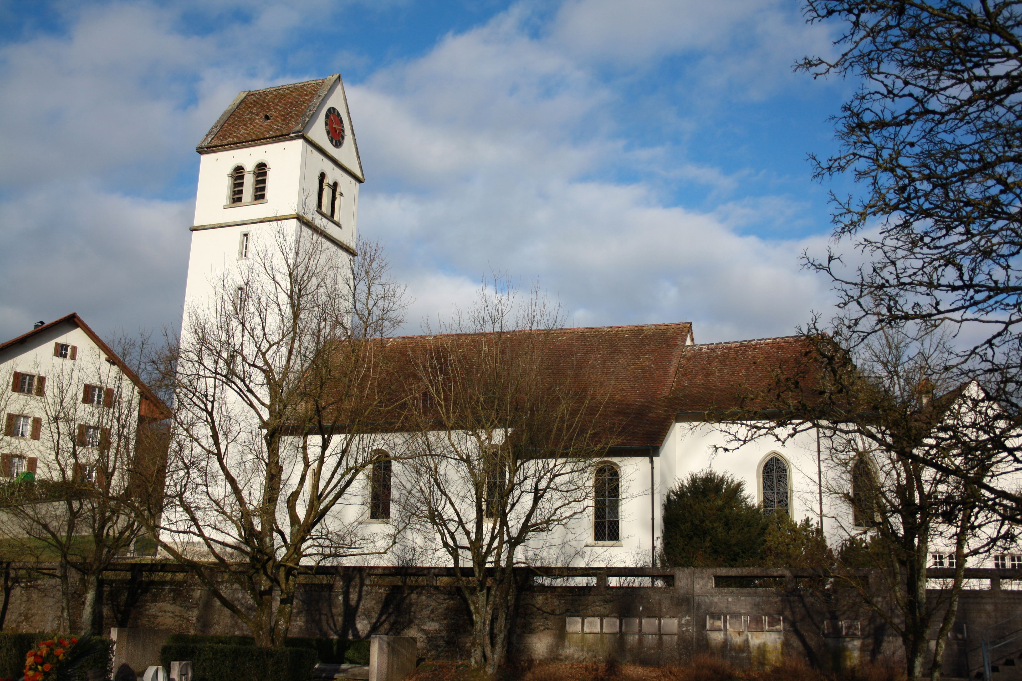 Reformed church of Bözberg